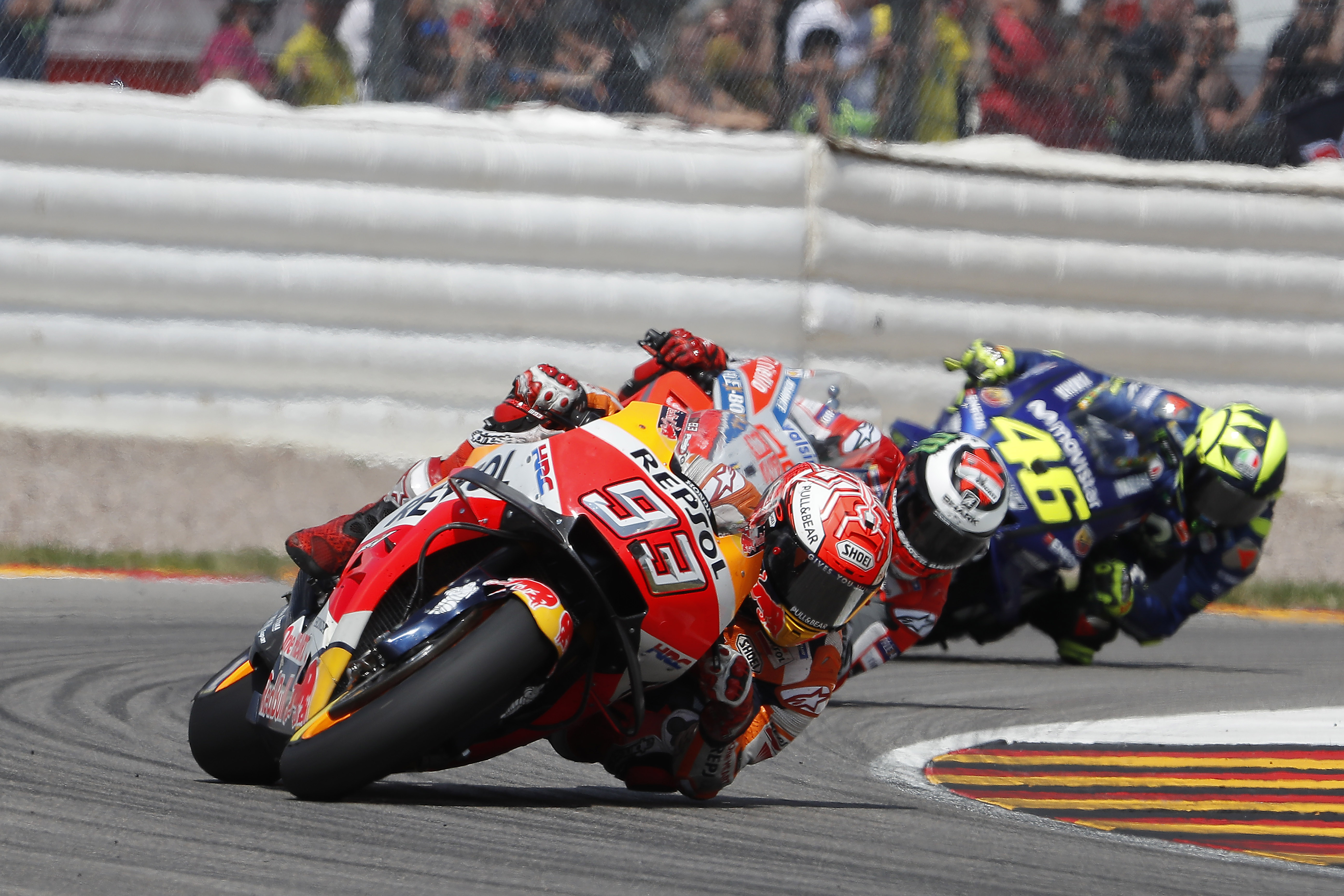 Marc Márquez, riding his Repsol Honda, being followed by the Movistar Yamaha of Valentino Rossi at the 2018 German Grand Prix.